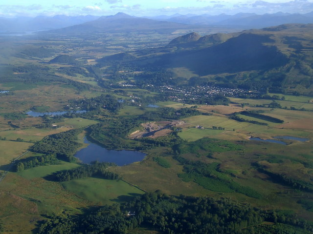 Strathblane and Ben Lomond Loch Ardinning and Muirhouse quarry are in the foreground, with Strathblane and Blanefield in the centre. Ben Lomond is prominent in the distance, with part of Loch Lomond visible to its left. Viewed from a Glasgow Airport bound Boeing 747.